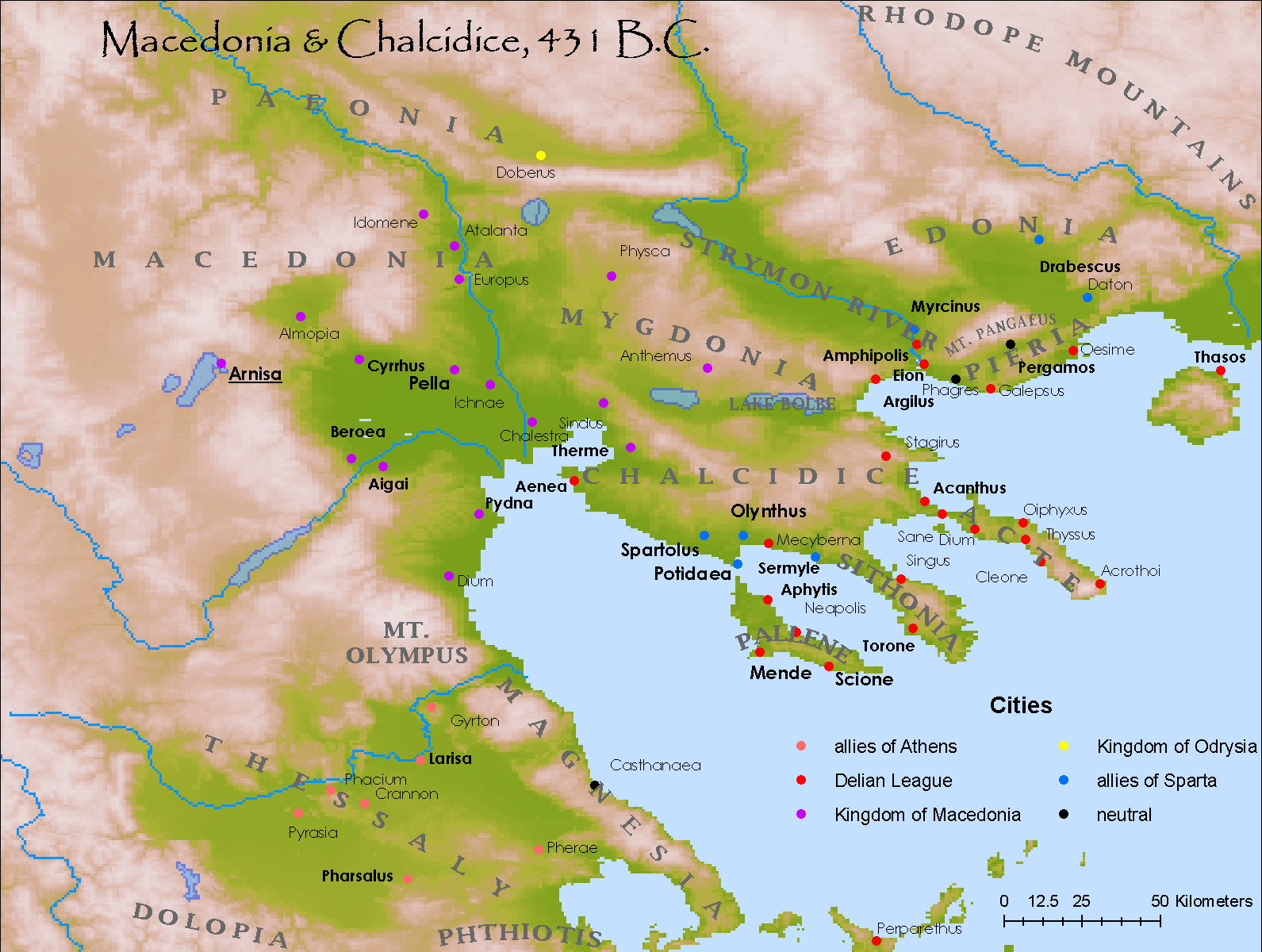 Map of the different sides in the Peloponnesian War around Macedonia and Chalcidice.